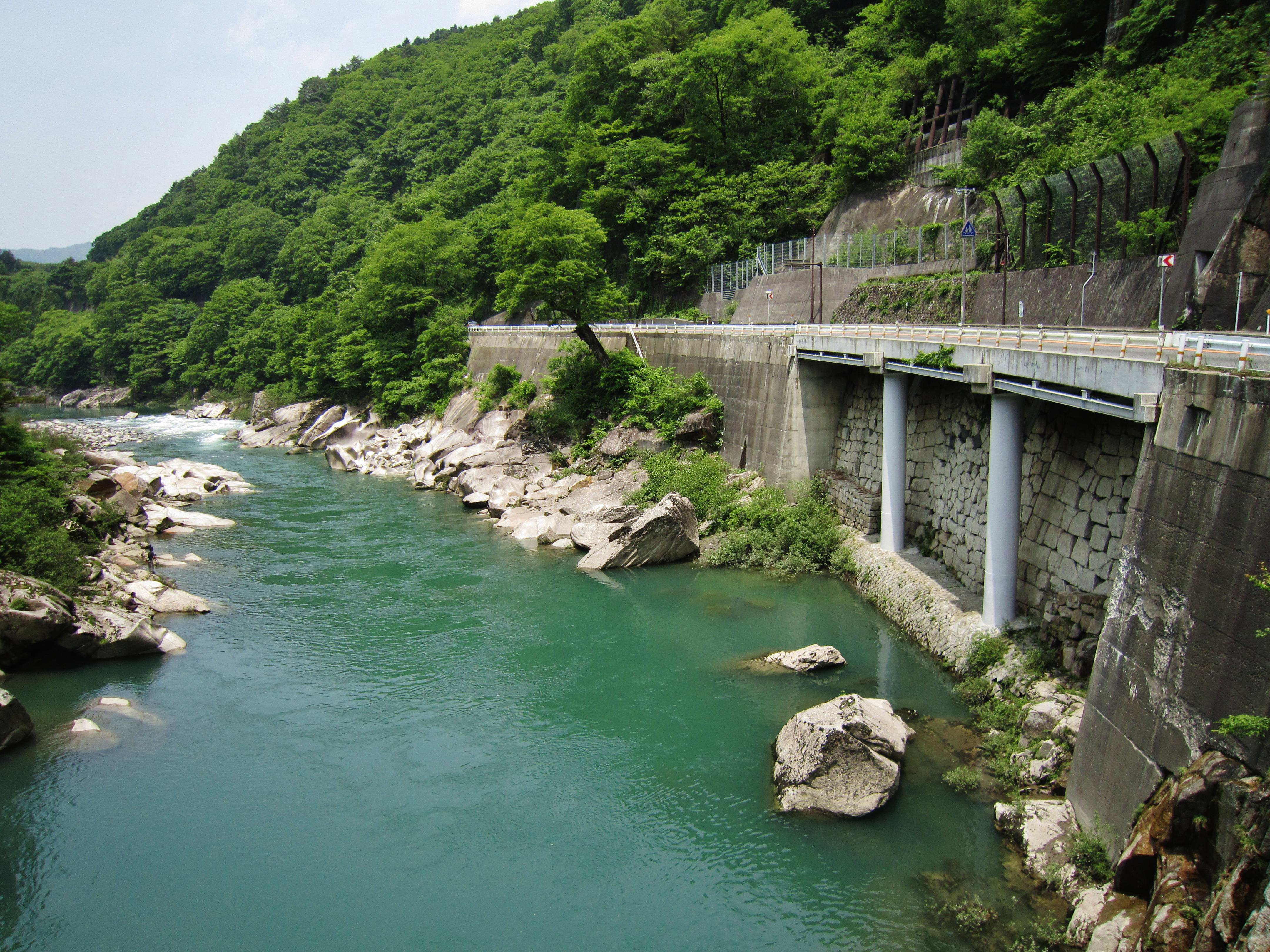 Kiso River and Kiso no kakehashi.